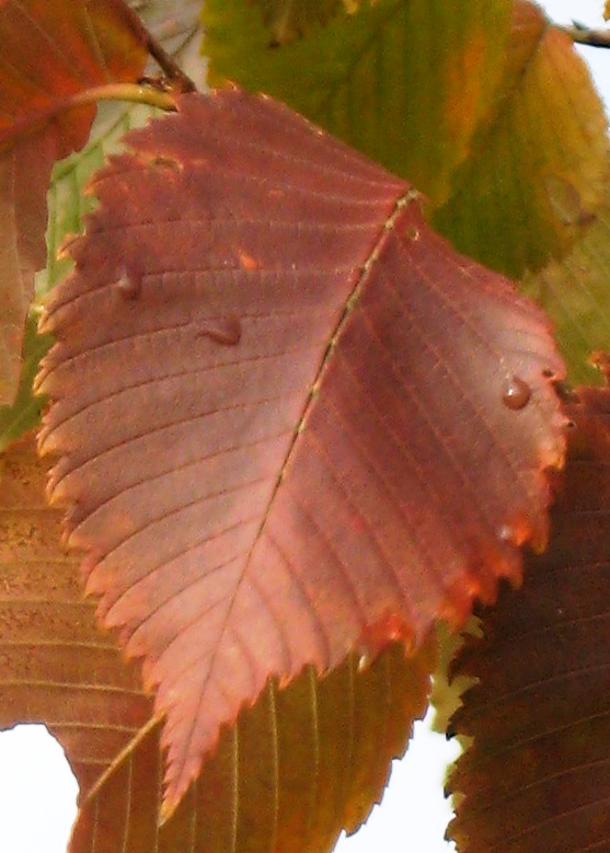 Leaf of Ulmus laevis photographed in late October, Great Fontley, England.